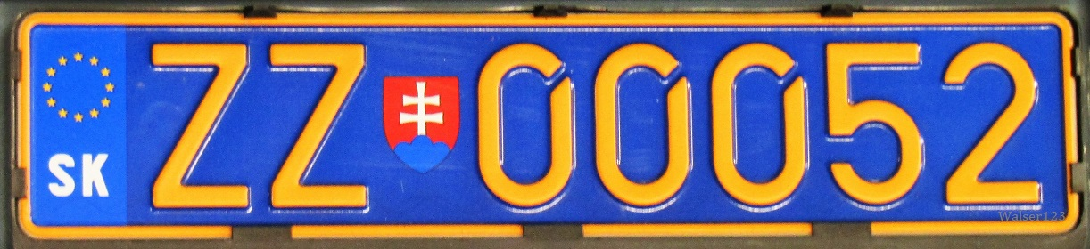 Slovakia diplomatic license plate ZZ 00052, seen in Liechtenstein